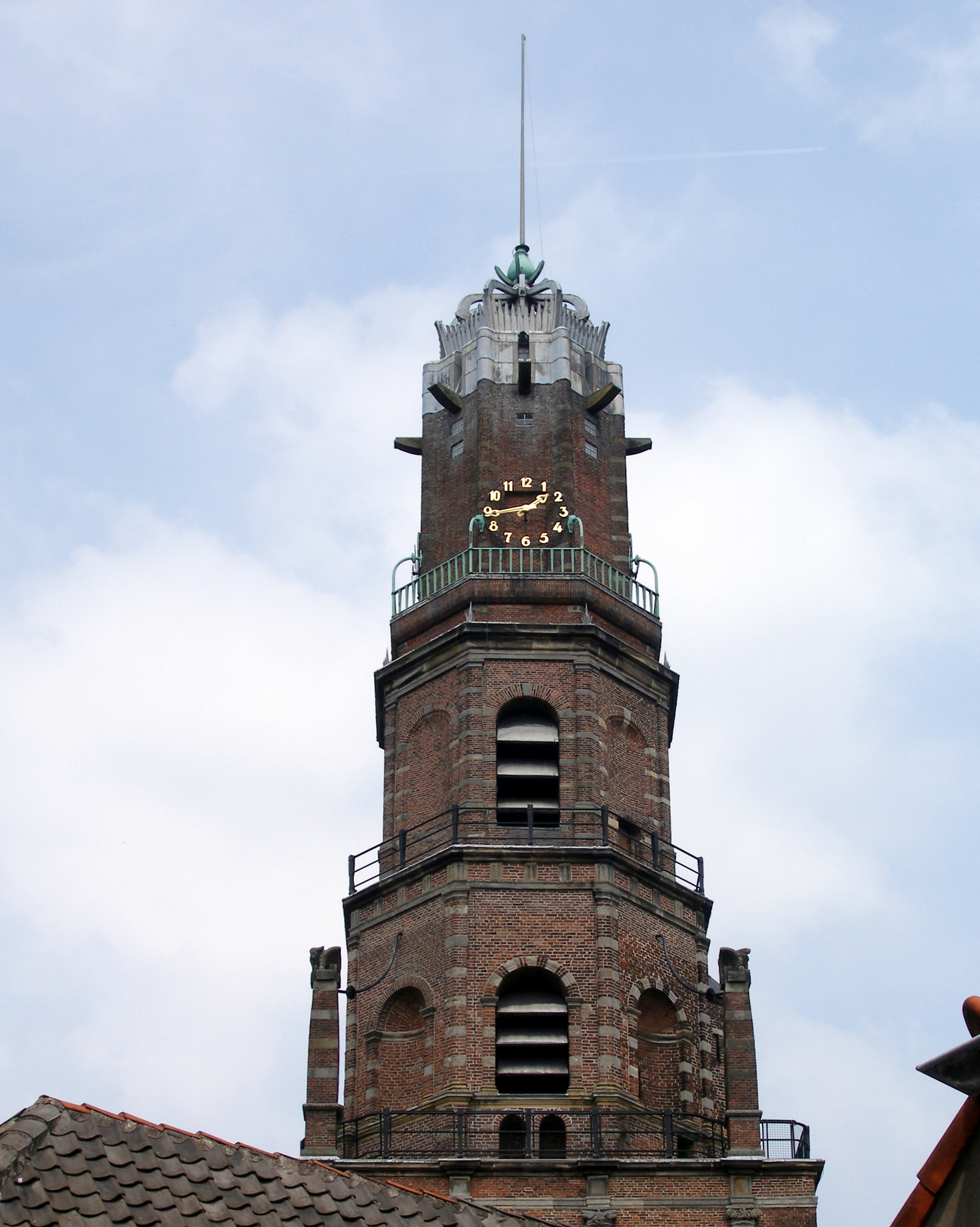 Steeple of the Hervormde Kerk (Dutch Reformed Church) in IJsselstein, the Netherlands. The tower was build about 1535 and was reconstructed several times. In 1911 the church and the tower were heavily damaged by fire. Hence the steeple was replaced in 1921-1923 by a new one in Amsterdams School style, as pictured.